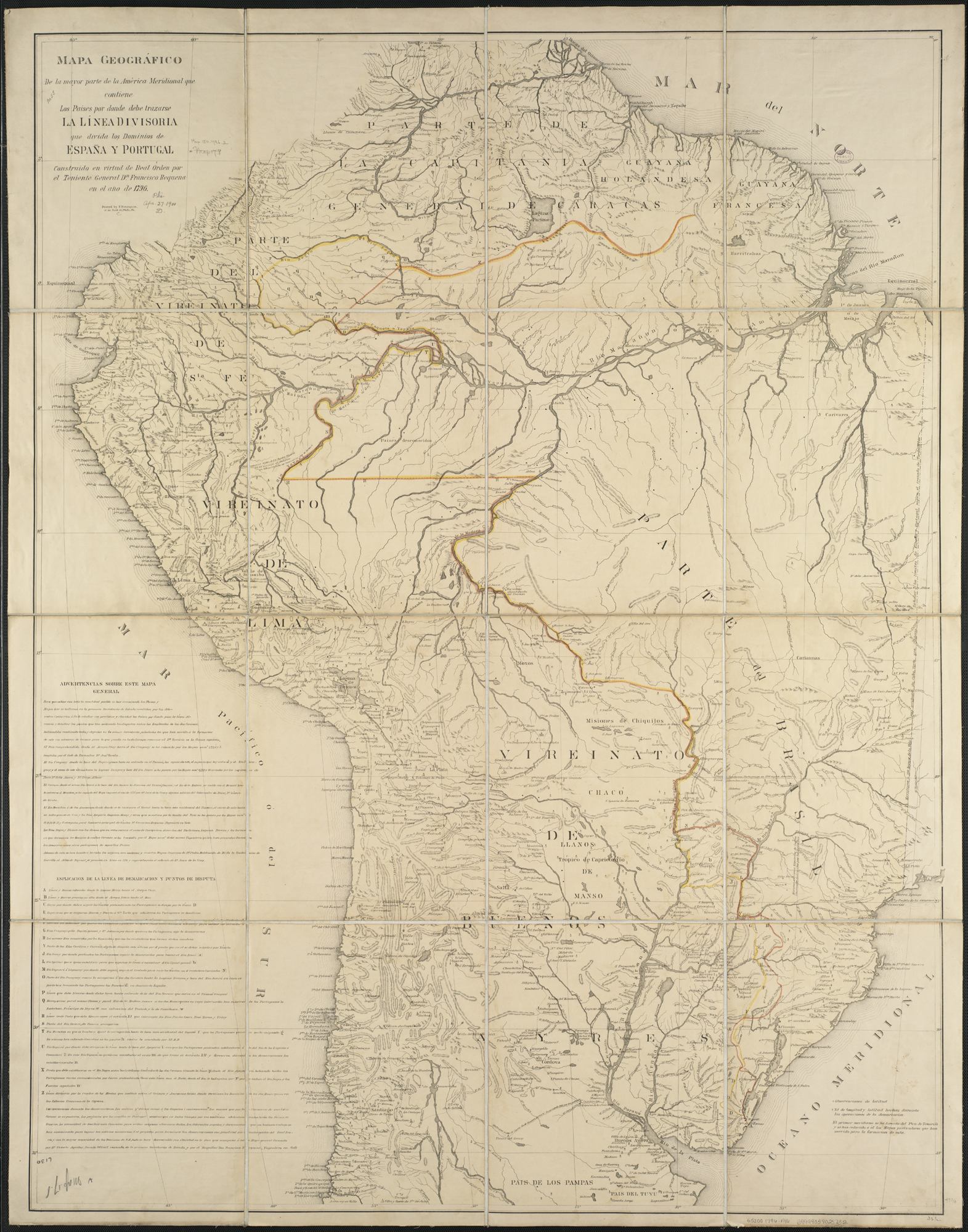 Zoom into this map at . Author: Requena, Francisco Publisher: Requena, Francisco Date: 1796 Location: South America Dimension 122x95cm Scale: Scale not given Call Number: G5200 1796 .R46